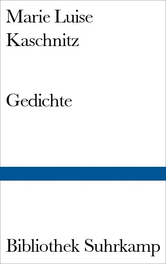 Book cover of Marie Luise Kaschnitz "Gedichte" 2006